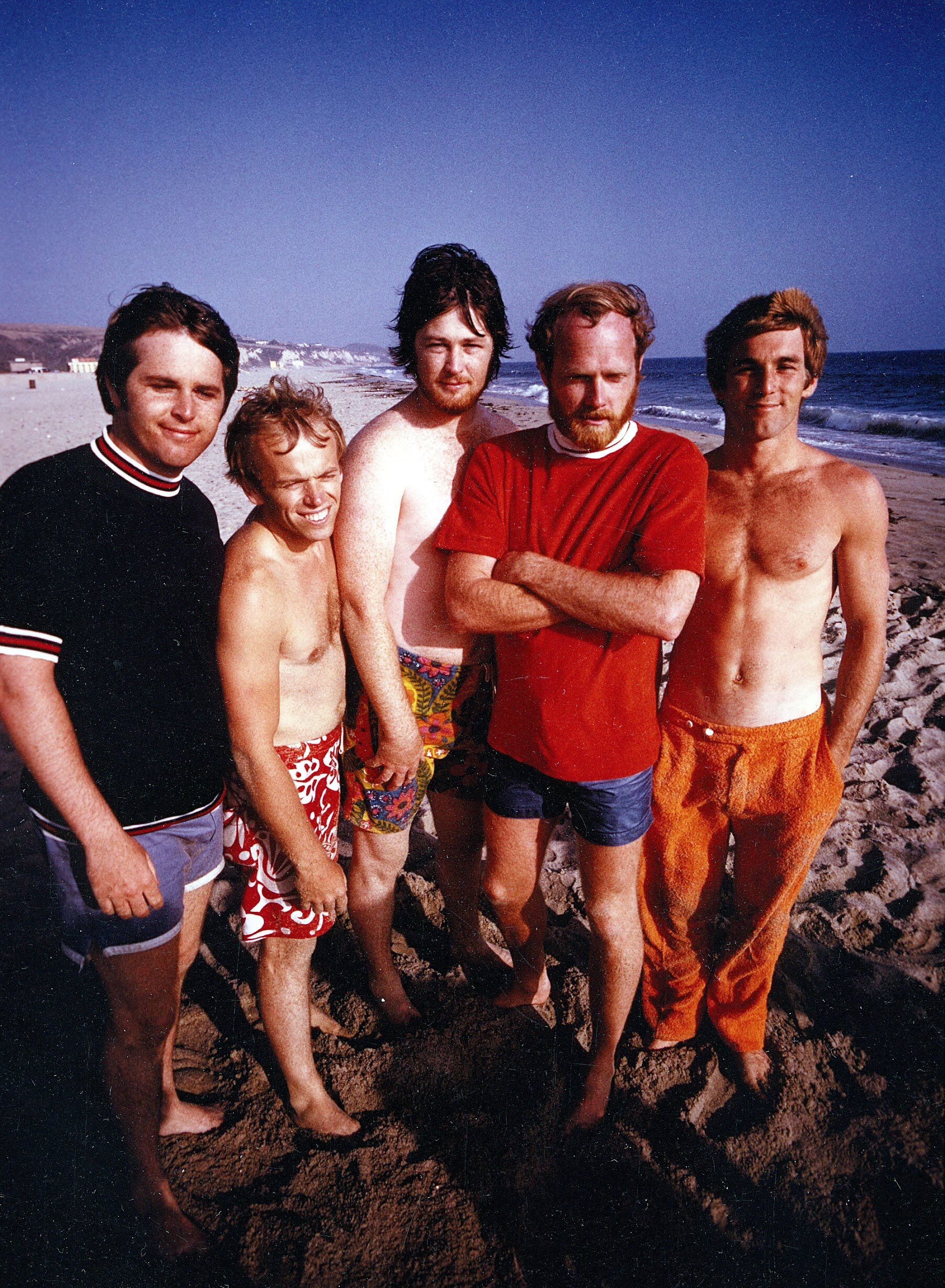 c. 1970 press photo of the Beach Boys